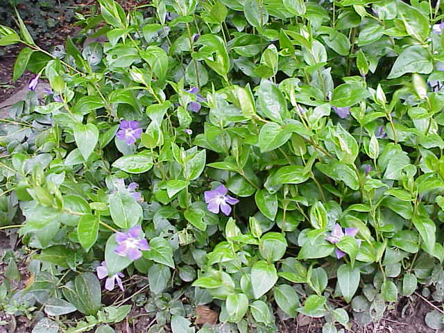 Species: Vinca major Family: ' Image No. 2